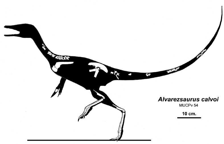 Skeletal diagram of Alvarezsaurus bonapartei by Jaime Headden. Scale bar = 10 cm.